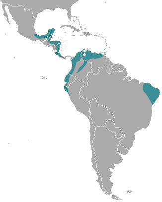 Striped Hog-nosed Skunk (Conepatus semistriatus) range, with national borders added